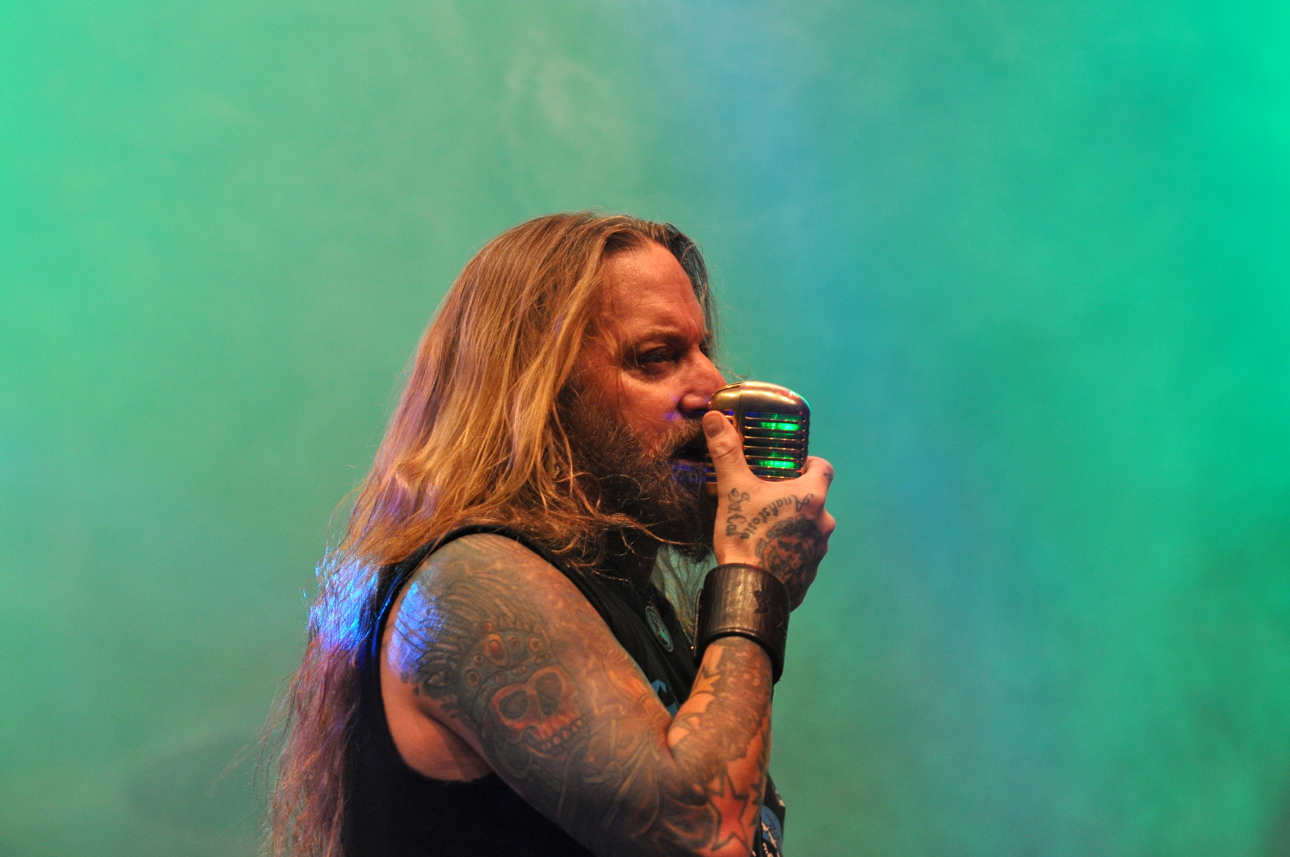 DevilDriver at Paaspop 2014